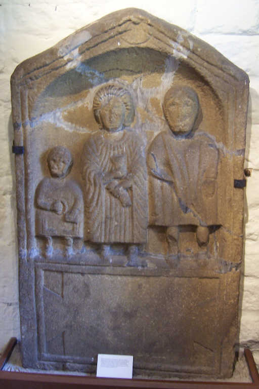 Found in 19th century in Ilkley. Displayed at the Manor House Museum, Ilkley.